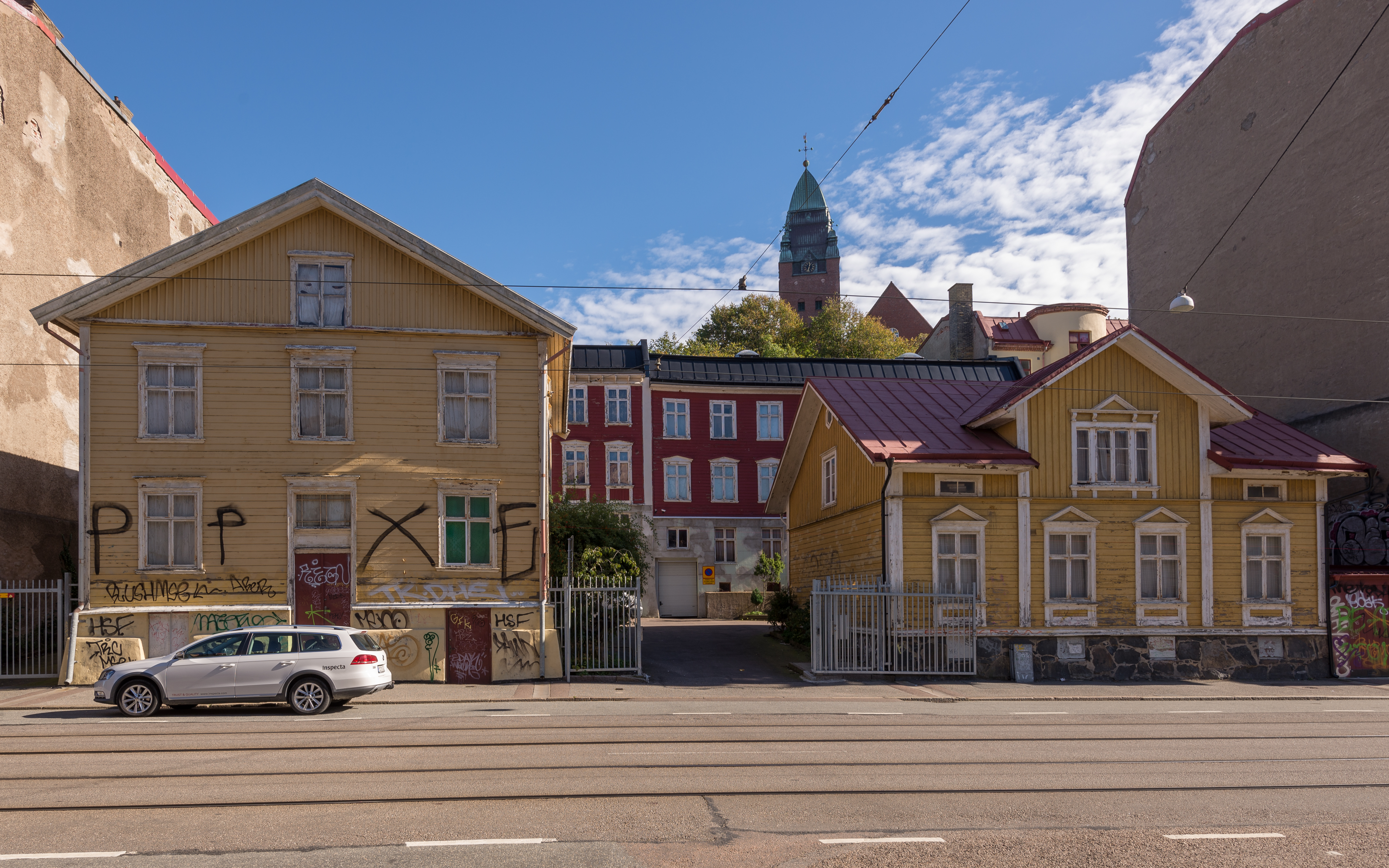 Buildings at the street Bangatan (Number 12-14) in Majorna, Gothenburg.